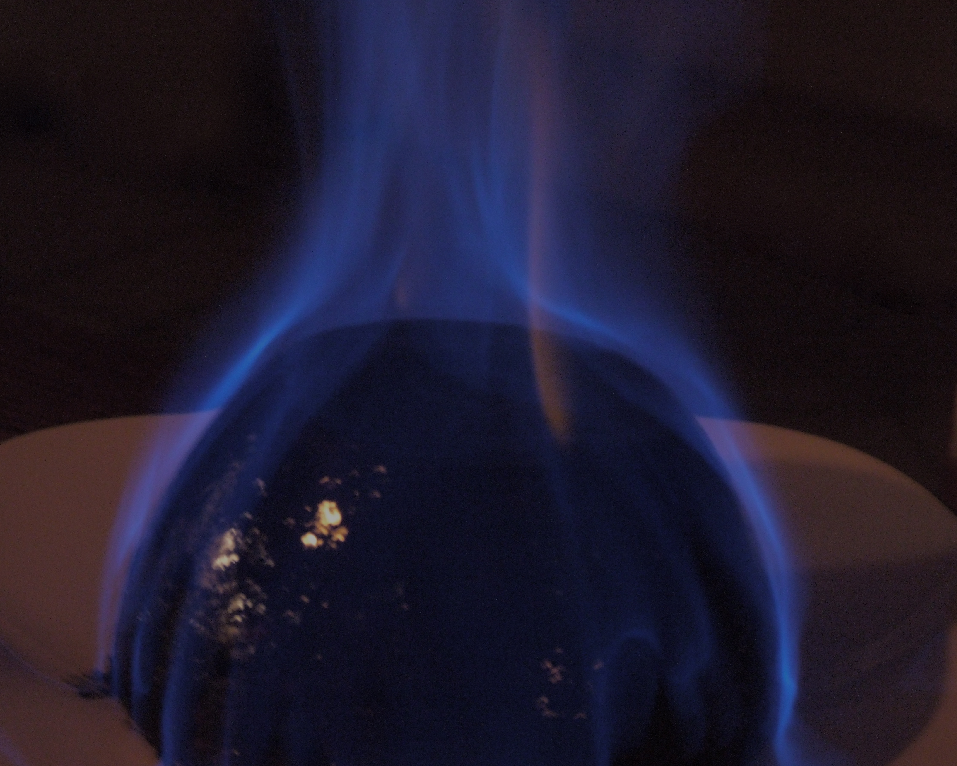 Christmas Pudding being flamed. Brandy has been set alight and poured over it.